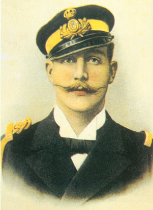 Prince Georges of Greece.